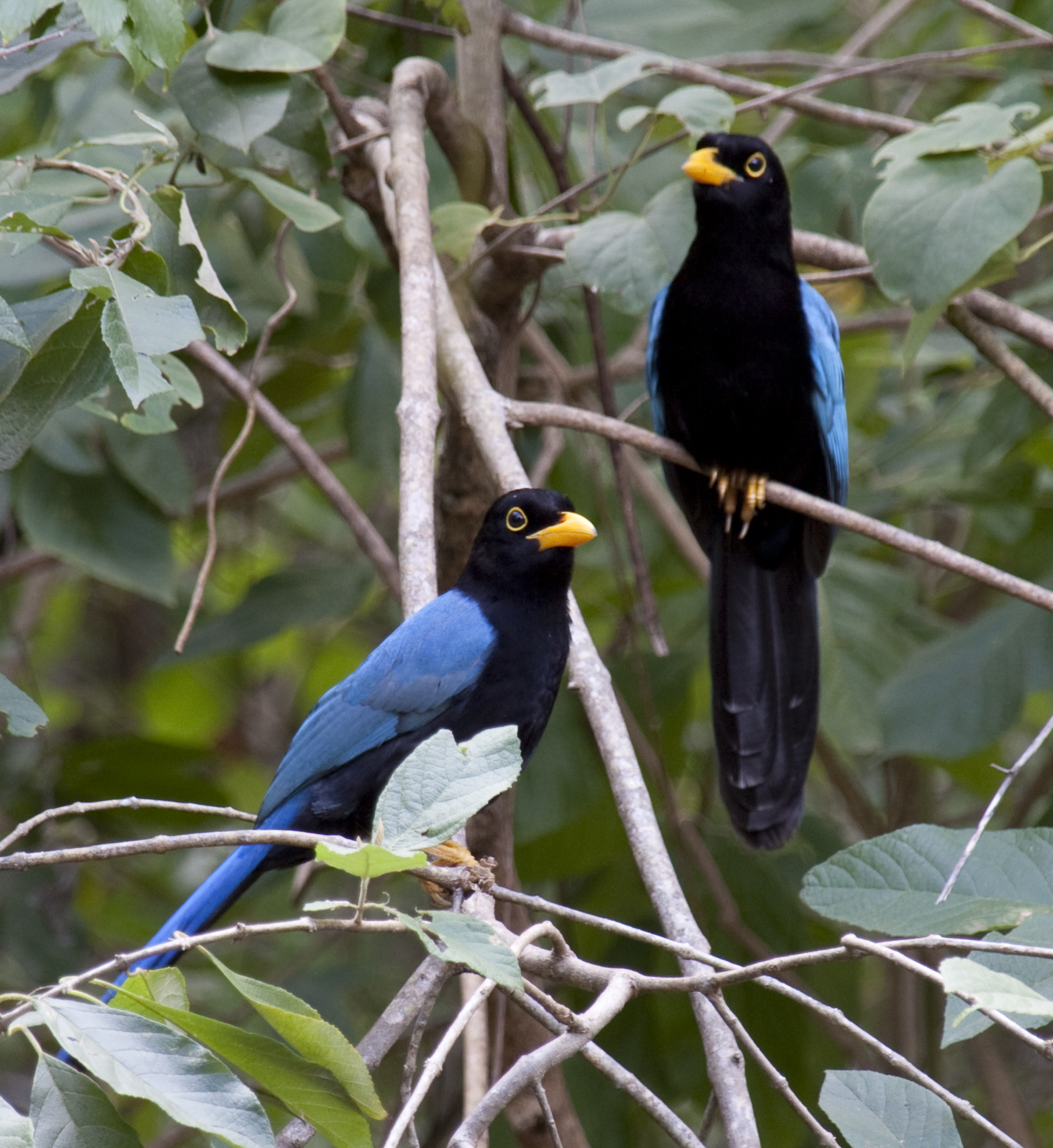 Two juvenile Yucatan Jays near Tulum in Mexico.